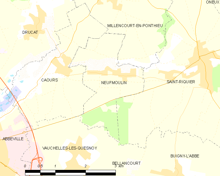 Map of French municipality Neufmoulin